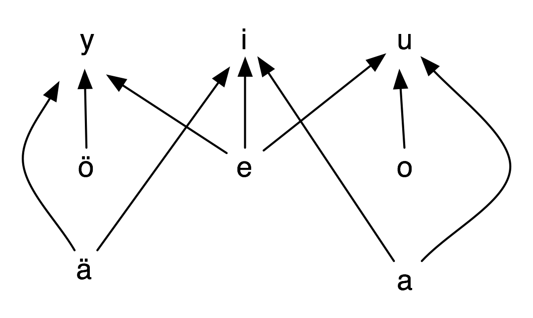 Drawing of Finnish rising diphthongs.